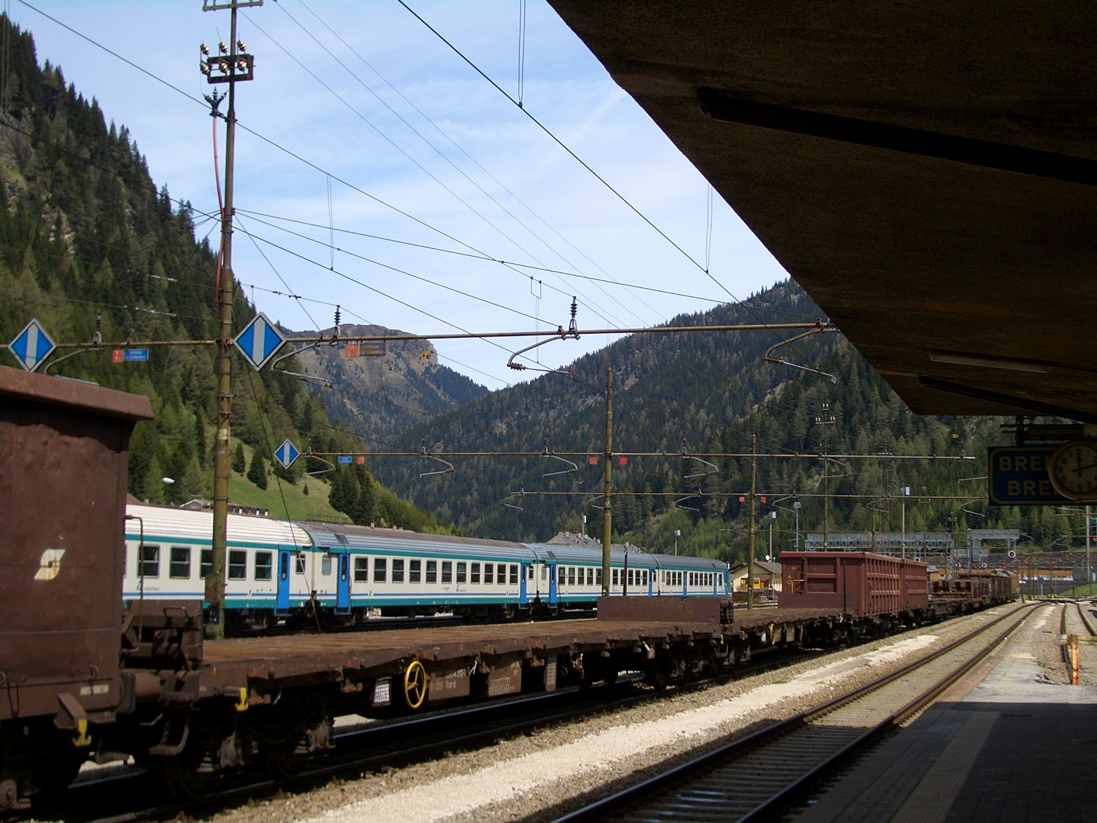 Brennero station (the first stop in Italy after Brenner Pass)